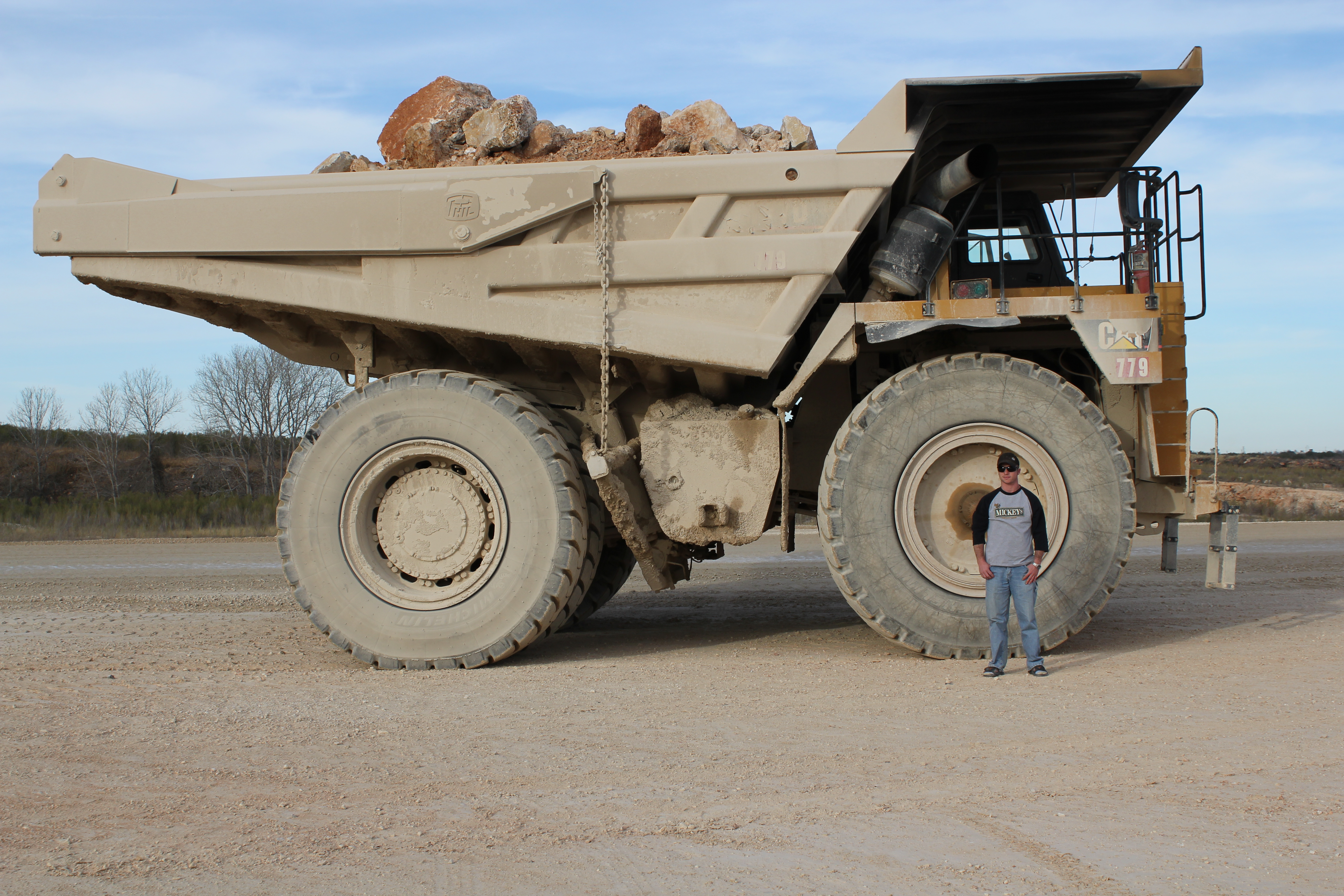 Limestone Road Base Holding Up 200 Tons